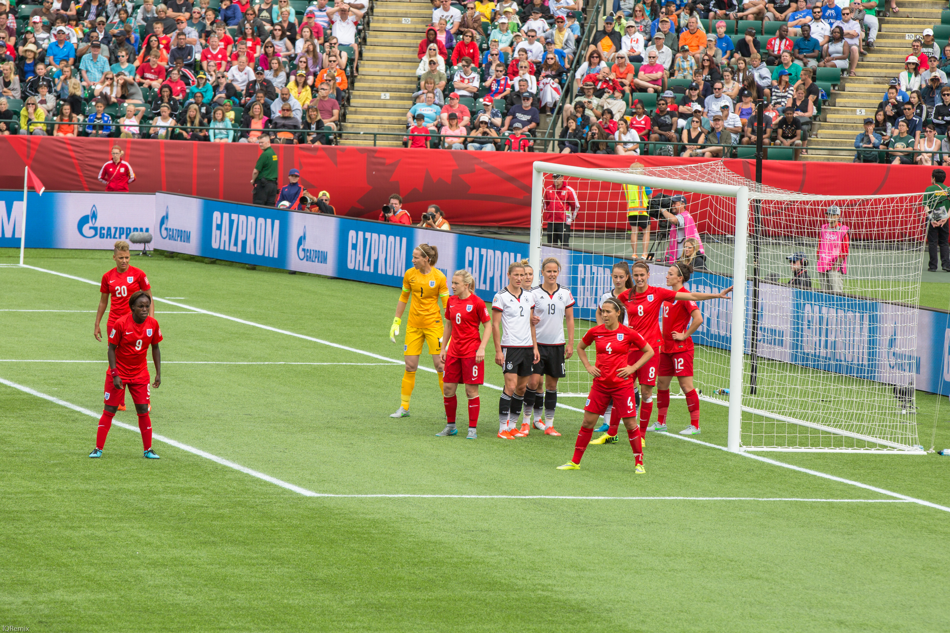 FIFA Women's World Cup Canada 2015 - Edmonton